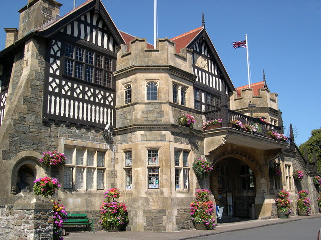 Lynton Town Hall In bloom with flag proudly flying